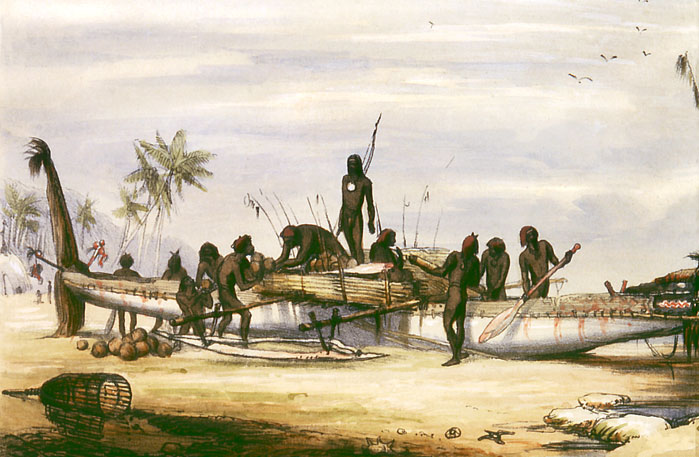 Trading canoe at Erub (Darnley Island) in the Torres Strait. Plate no. XIX of: Sketches in Australia and the Adjacent Islands, by Harden S. Melville. Tinted lithograph with some hand colouring. London: Printed and published by Dickinson & Co. c 1849.